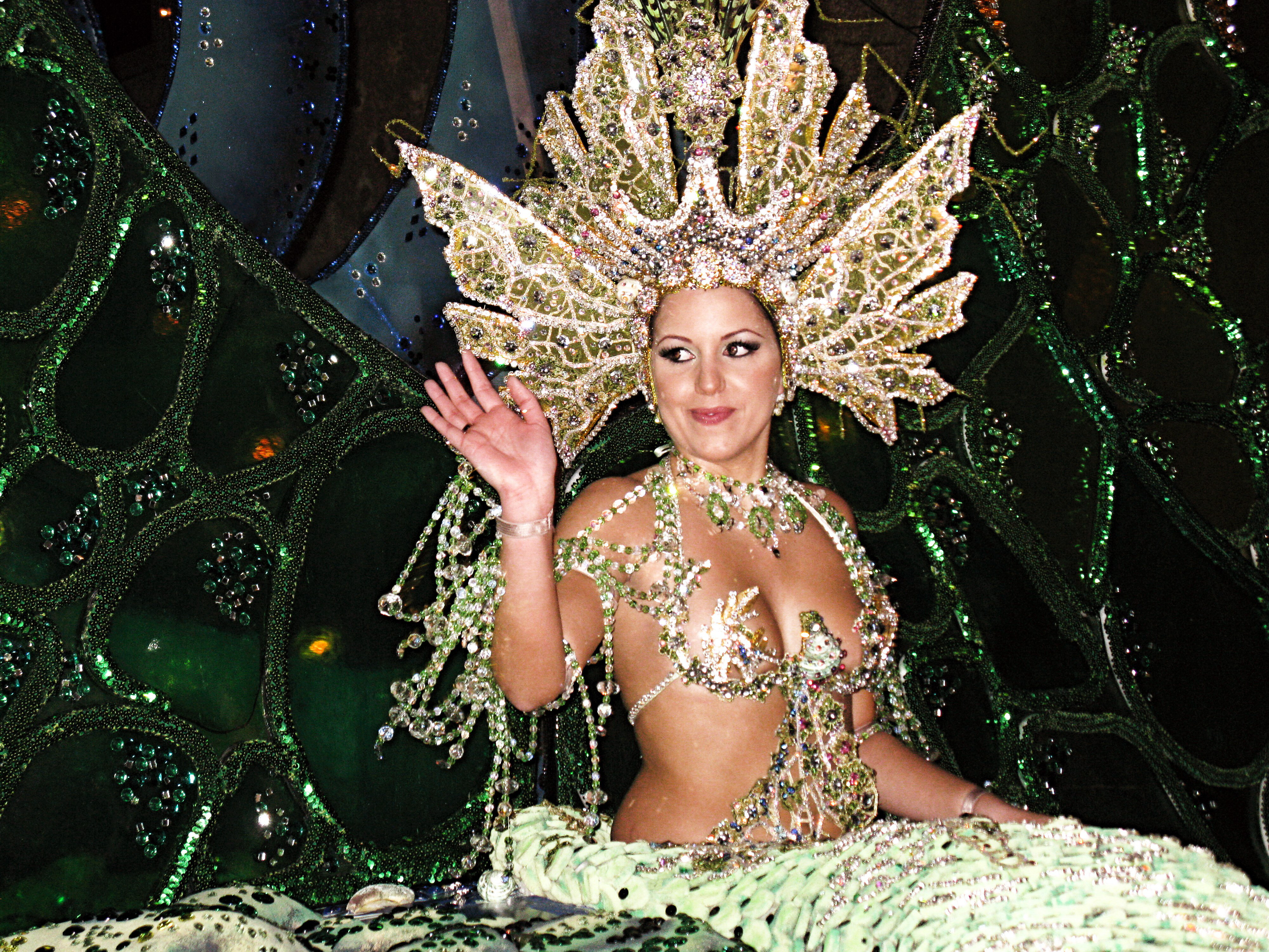 Contestant Angeles Hernández Paez performs during the Tenerife Carnival Queen 2009 contest in Santa Cruz de Tenerife. Her costume might be inspired by the royal Disney Princess mermaid Ariel. So that her legs are fish and the top of the beautiful body is female human with a golden crown of the sea queen.